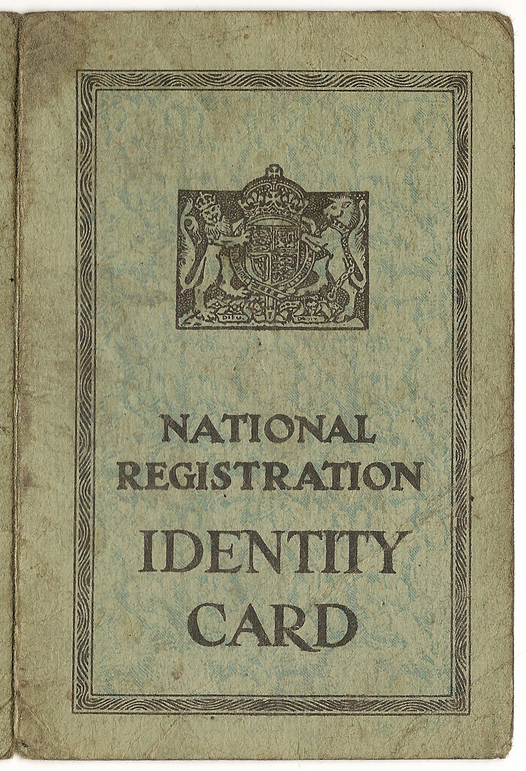 My deceased father's ID card This artistic work created by the United Kingdom Government is in the public domain. This is because it is one of the following: It is a photograph created by the United Kingdom Government and taken prior to 1 June 1957; or It was commercially published prior to 1965; or It is an artistic work other than a photograph or engraving (e.g. a painting) which was created by the United Kingdom Government prior to 1965. HMSO has declared that the expiry of Crown Copyrights applies worldwide (ref: HMSO Email Reply) More information. See also Copyright and Crown copyright artistic works.